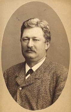 Theodor Christian Jochimsen (1838-1906), Danish engineer